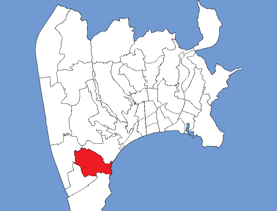 Location of the neighbourhood Caucade in Nice